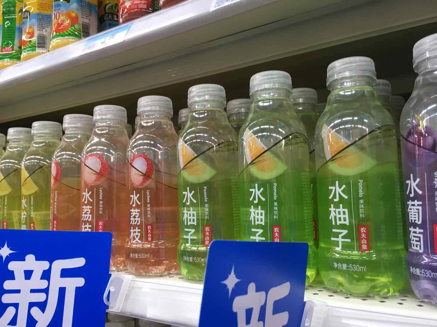 Product photo